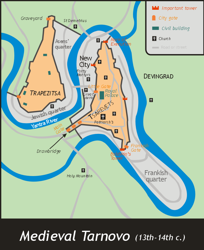 Map of the medieval city of Tarnovo, the capital of the Second Bulgarian Empire. English version. Based on Image:Map of Carevec.jpg by Rostislav Botev.